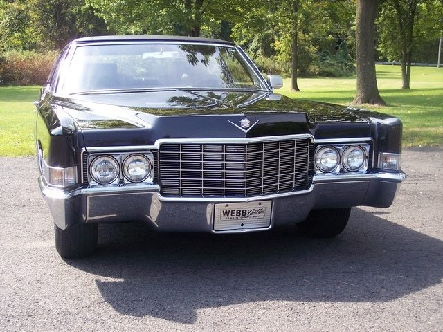 This is a picture of a vehicle (name of it is on the file name).